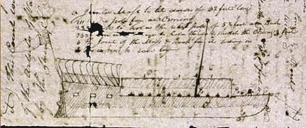 Keelboat, as used on Ohio and Missouri rivers in the 19th century, scetch from the field notes of William Clark, on 1804-01-21